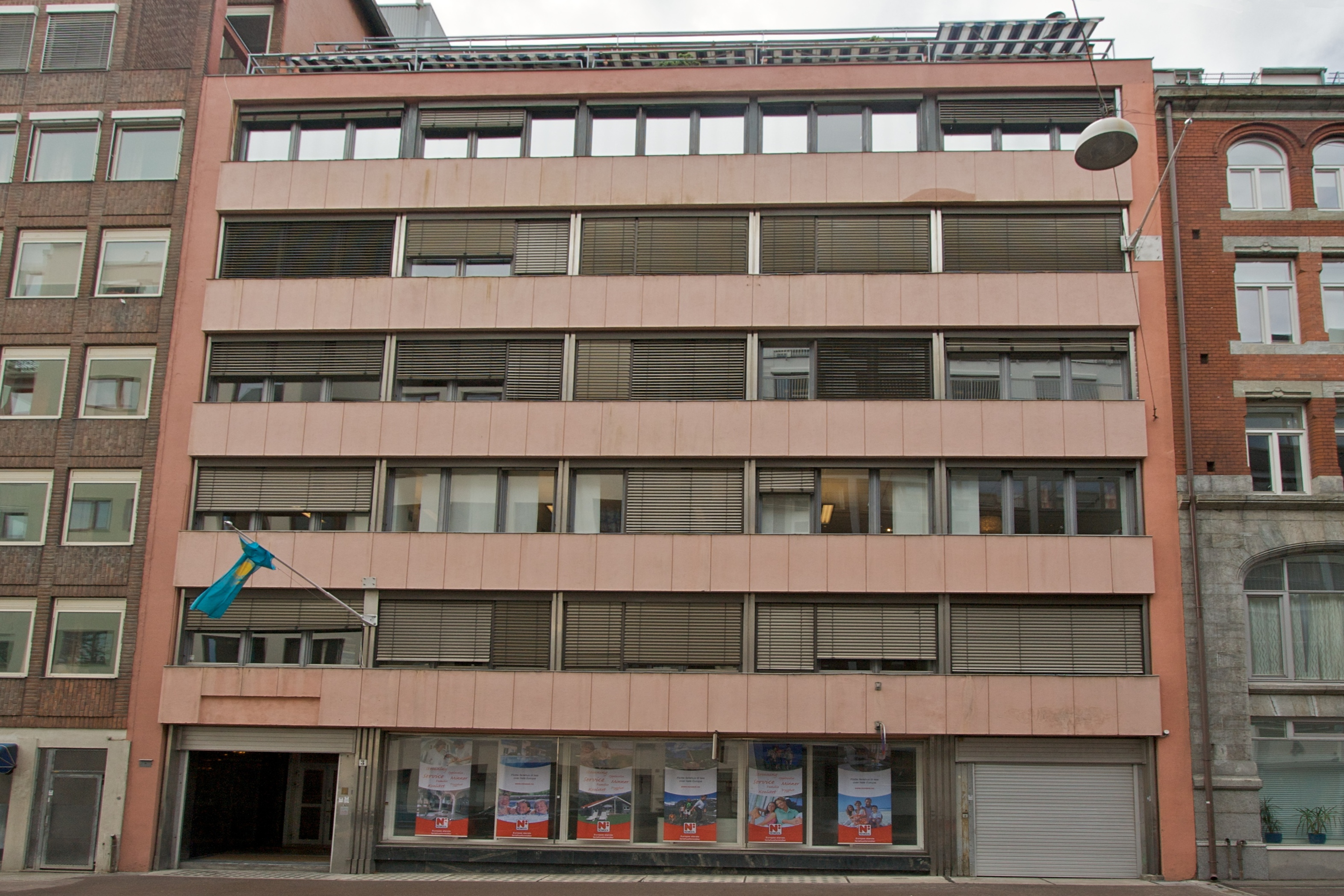 Embassy of Kazakhstan, Oslo, Norway.